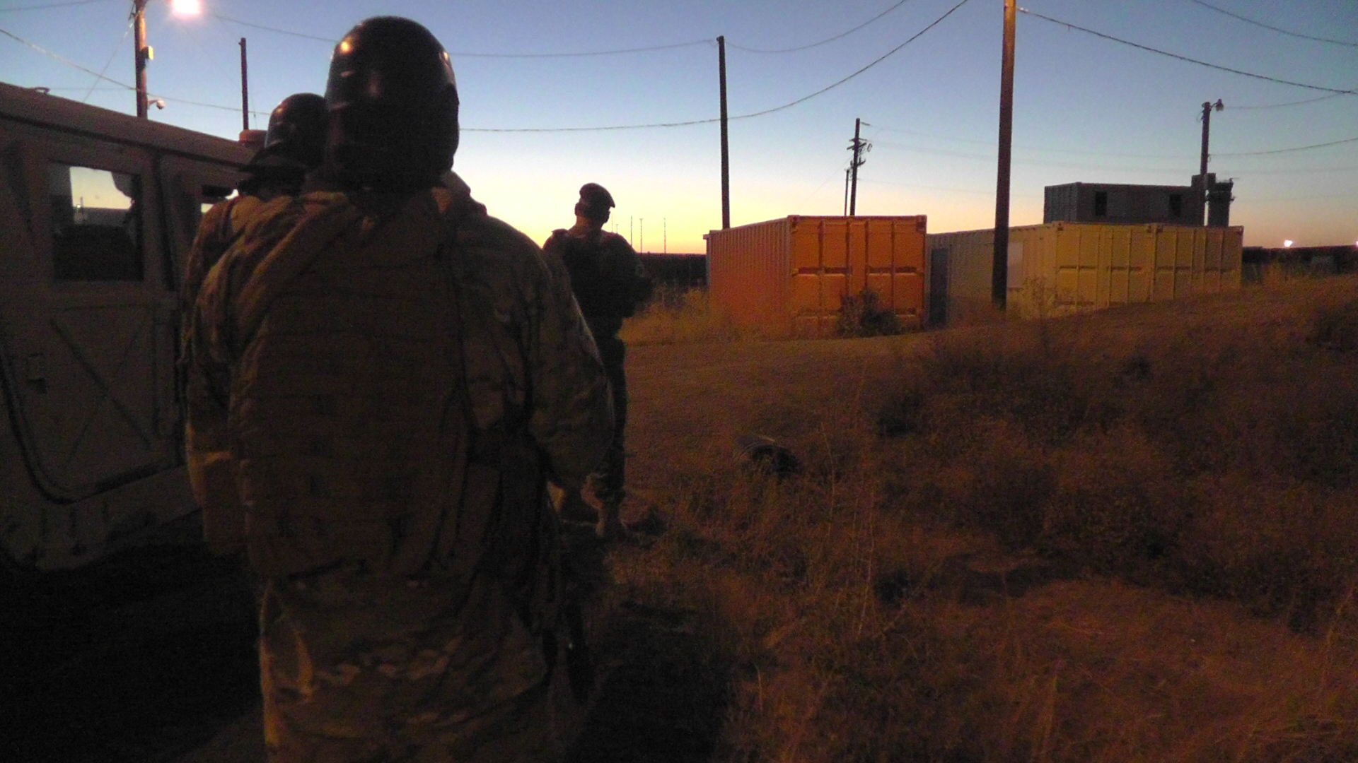 Private OPFOR company training at Fairchild AFB, 2012.